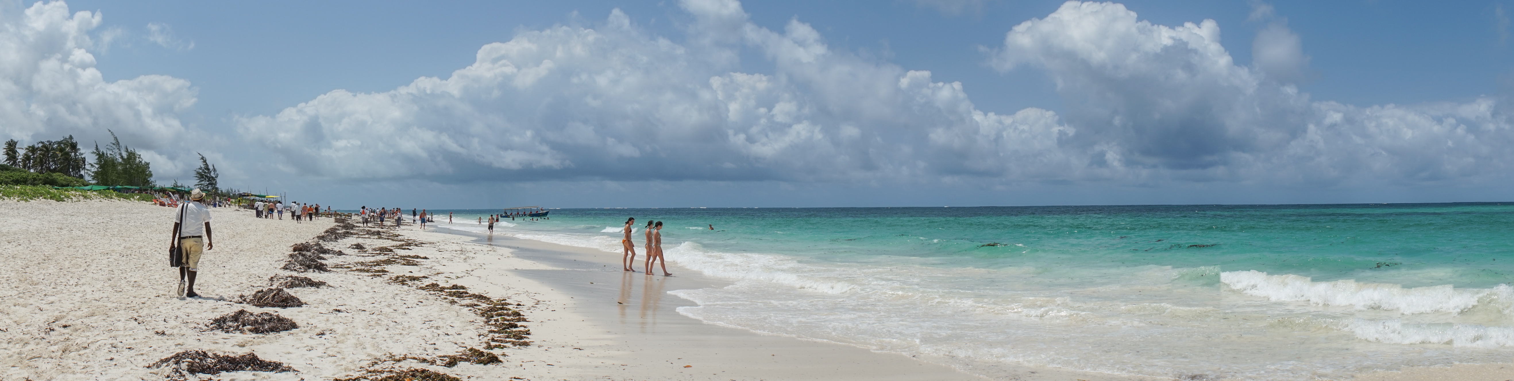 Watamu, Kenya